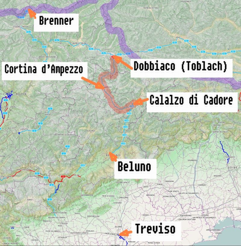 Cyclemap render of Italy around Calalzo di Cadore, edited to add labels and border outlines